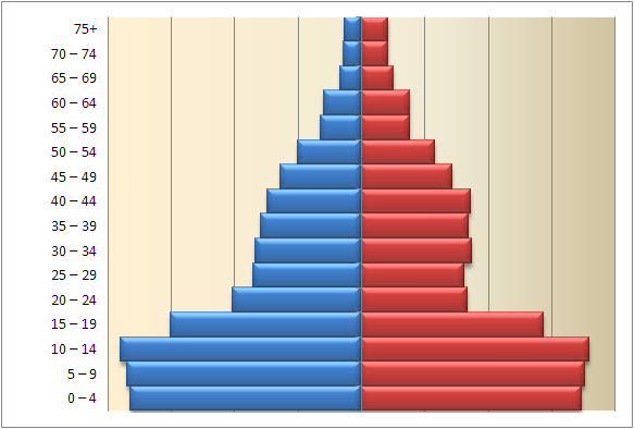 A population pyramid for Dairi Regency. Data current as of 2008. Source: Dairi Government